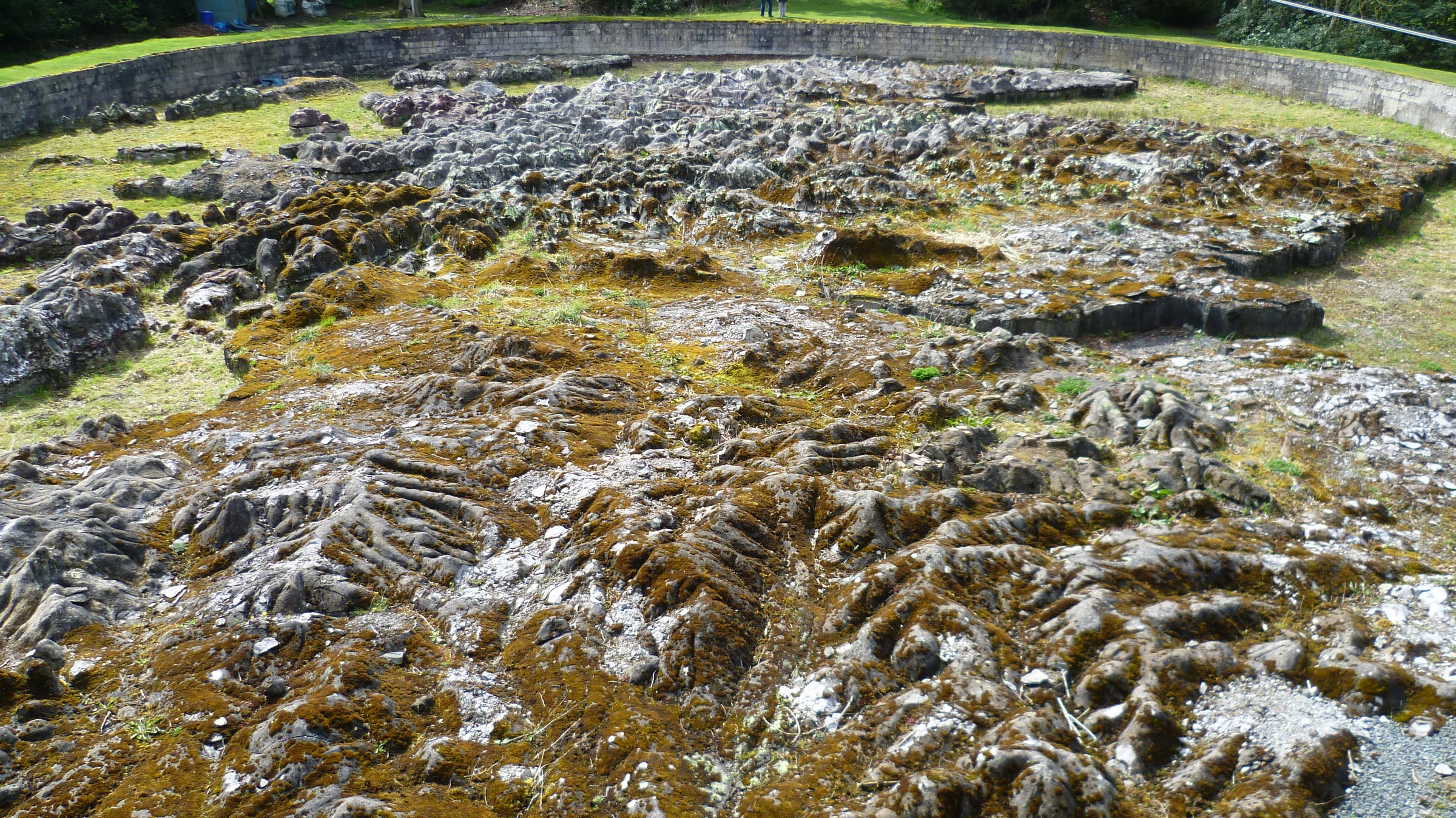 Category:Great Polish Map of Scotland (sculpture) (Mapa Scotland) — Barony Castle, Scottish Borders.. This image is annotated on its description page.